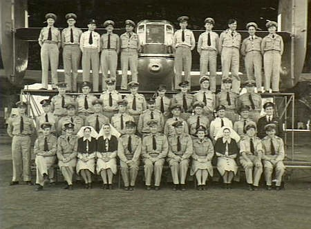 Amberley, Qld. Group portrait of Officer Staff of No. 3 Aircraft Depot RAAF. The Commanding Officer is Group Captain G. E. Douglas, seated at front, centre. They pose at the tail of a RAAF Consolidated B-24 Liberator bomber aircraft, for which No. 3AD is the receiving depot from the USA.